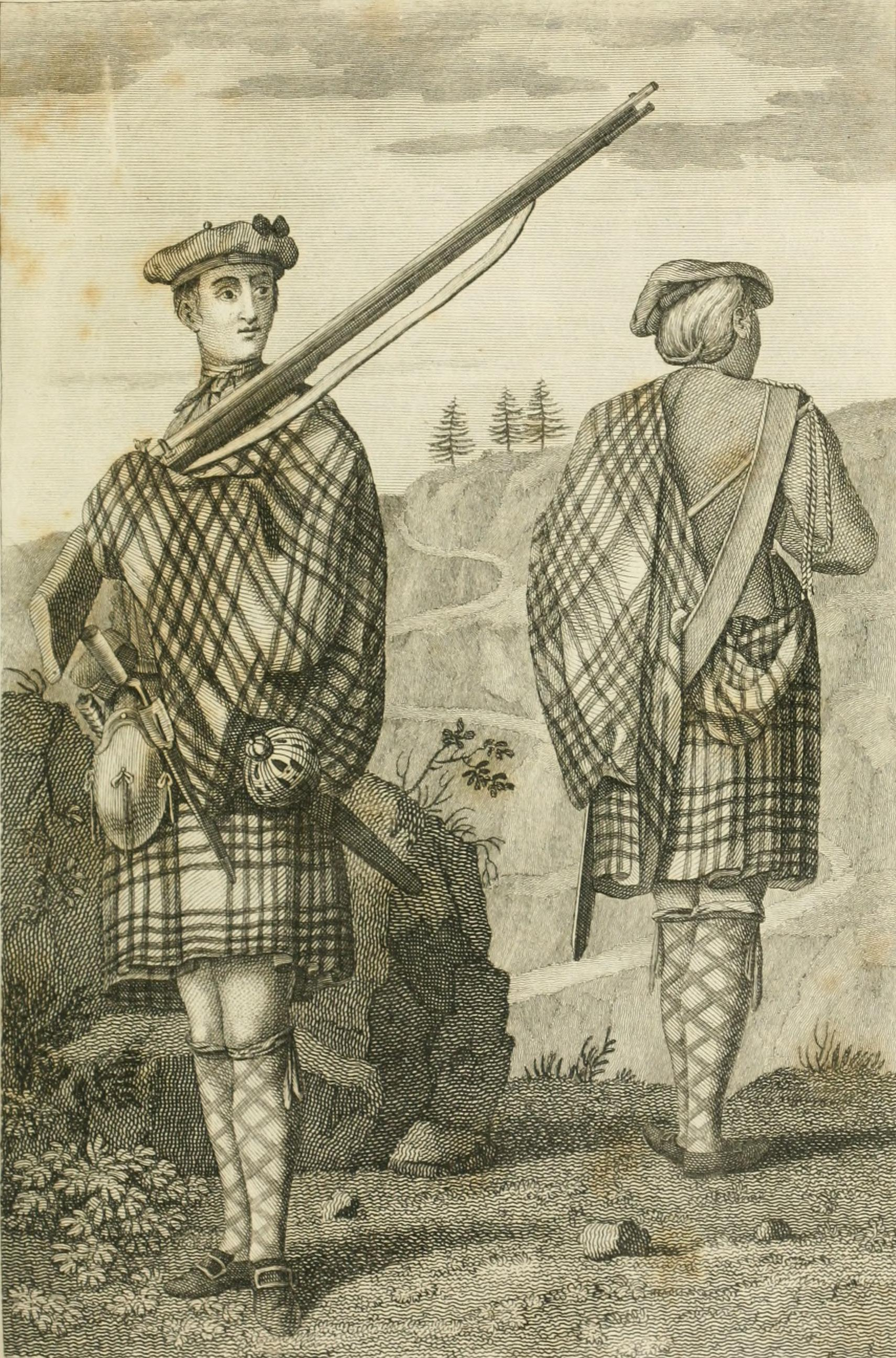 Highland soldiers.